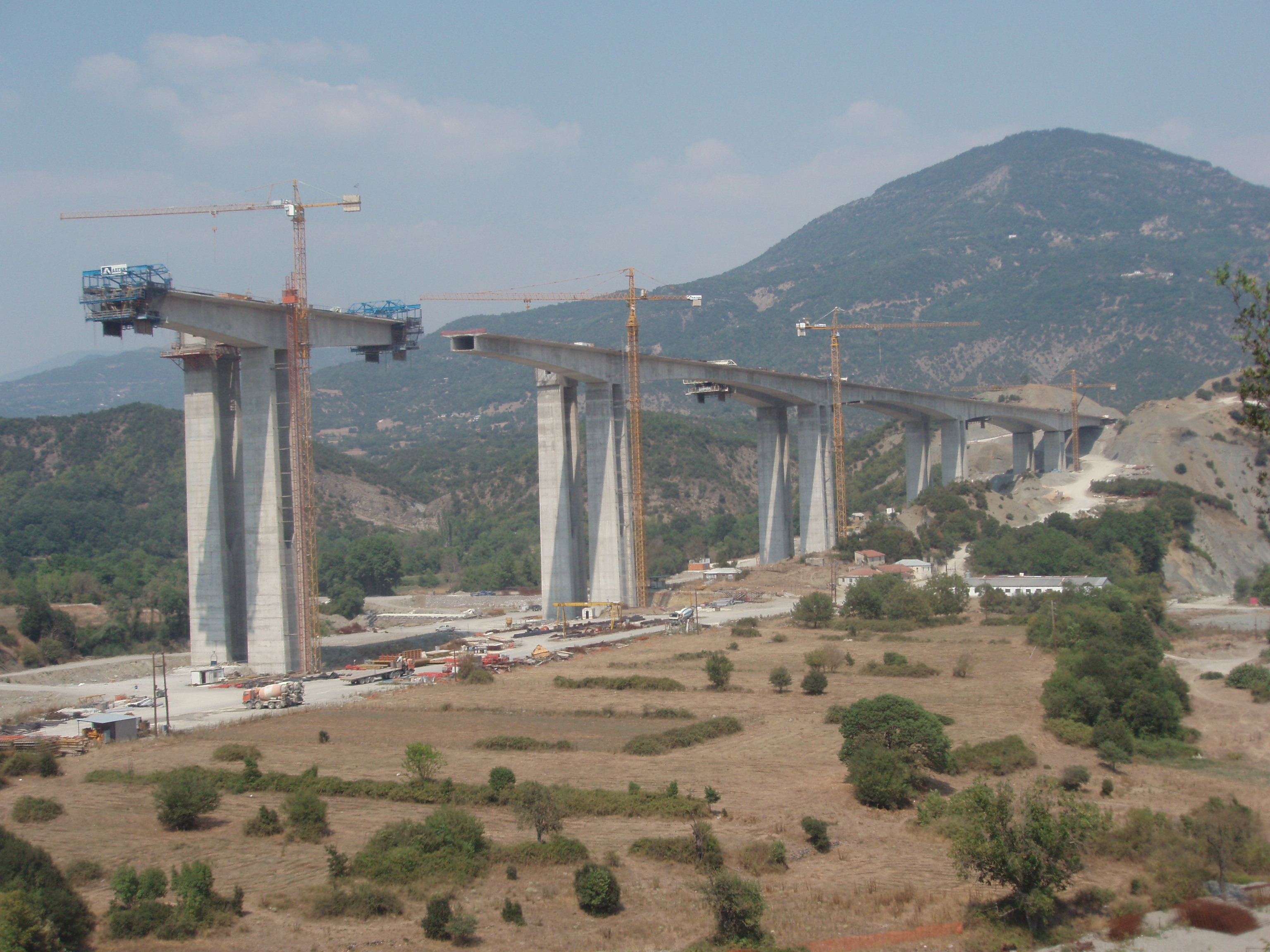 View on Arachthos River highway concrete beam bridge under construction — in Ioannina Prefecture, Greece. On A2 motorway (Egnatia Odos), Driskos-Chrysovitsa section.